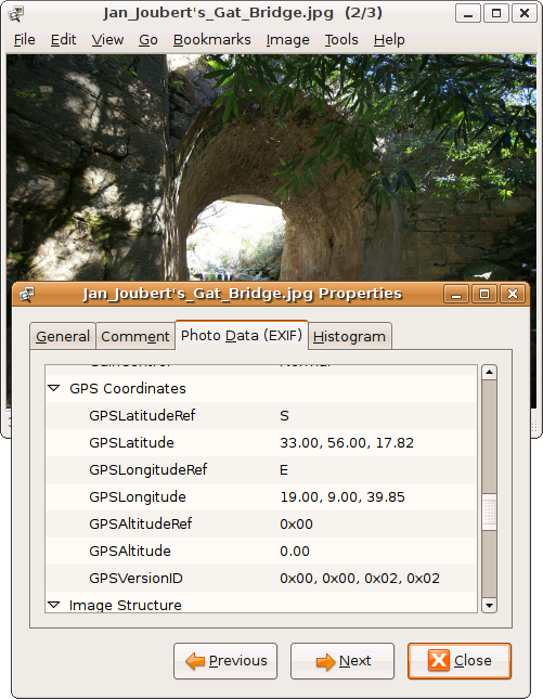 Geotagging, as demonstrated by Image:Jan Joubert's Gat Bridge.jpg (CC-BY-2.0) in gThumb (GPL2) with the Human desktop theme (CC-BY-SA-2.5)